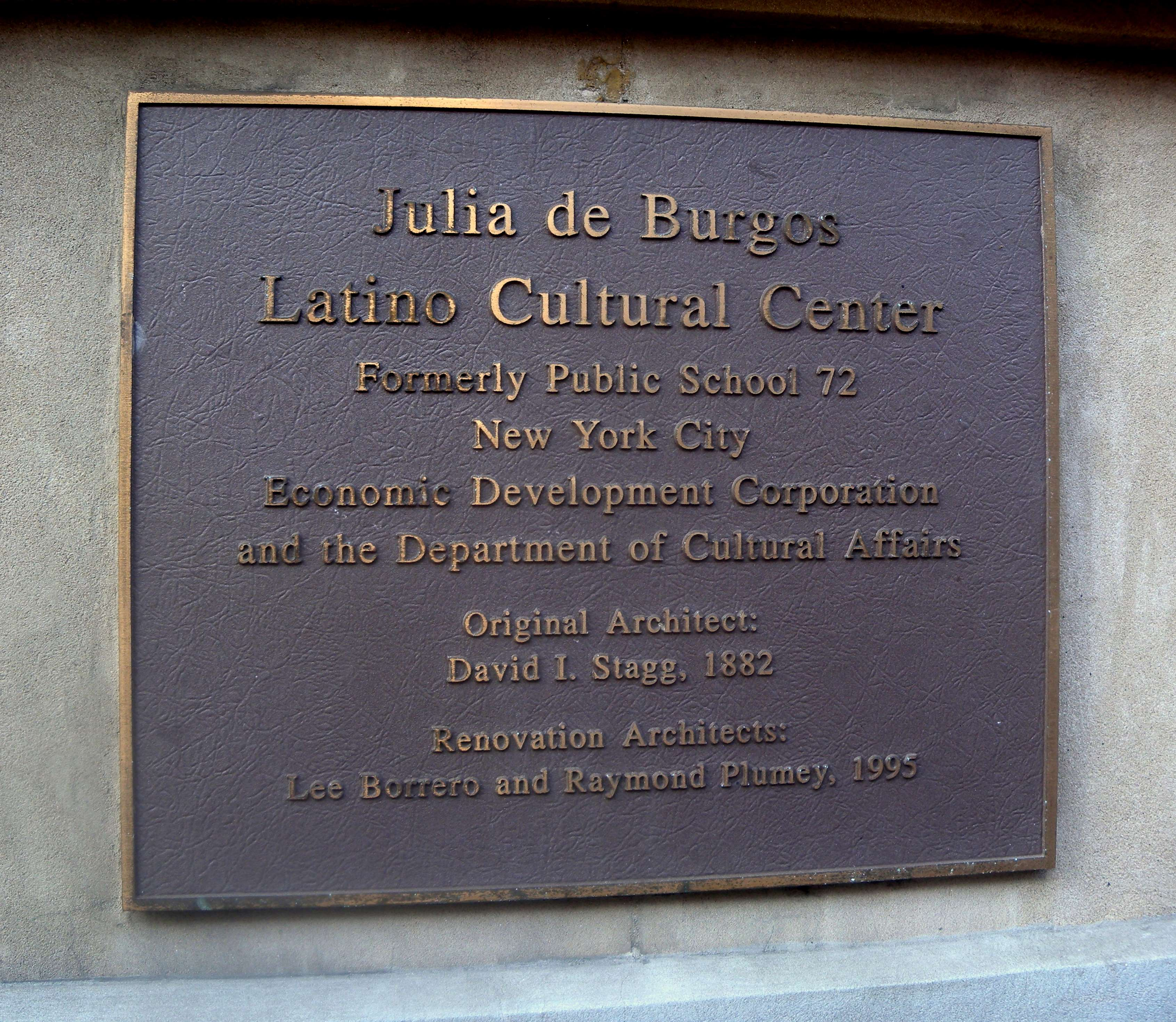 Looking west from Lexington Avenue sidewalk at plaque for PS 92 on a sunny midday. See also File:PS 72 Lex 105 jeh.jpg.